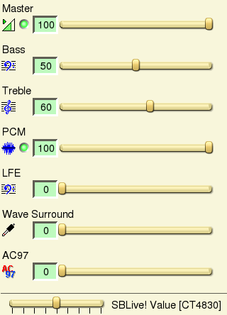 Sliders controlling output of the sound card